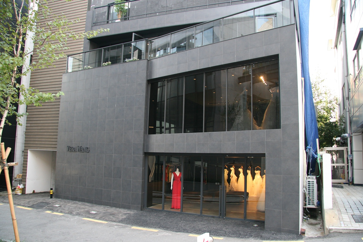 Vera Wang Bridal Korea in Cheongdam-dong, Gangnam-gu, Seoul in 2012